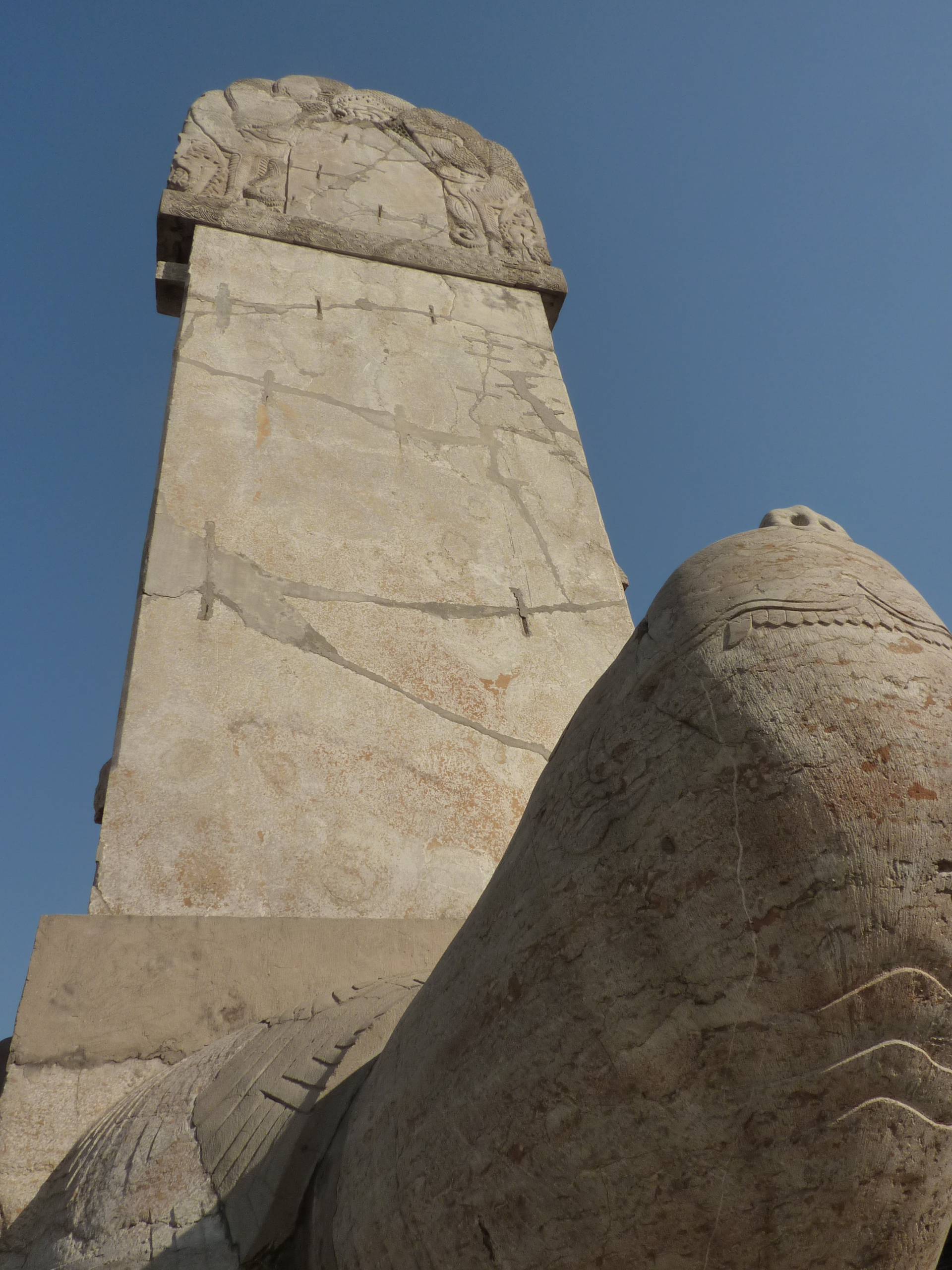 The Shou Qiu site - the two giant turtle-borne steles on the eastern and western side of a small lake. As almost all turtles of these kind, the two turtles look to the south. The western stele is known as "Qing Shou Stele", the eastern stele, as the "Wan Ren Chou Stele"